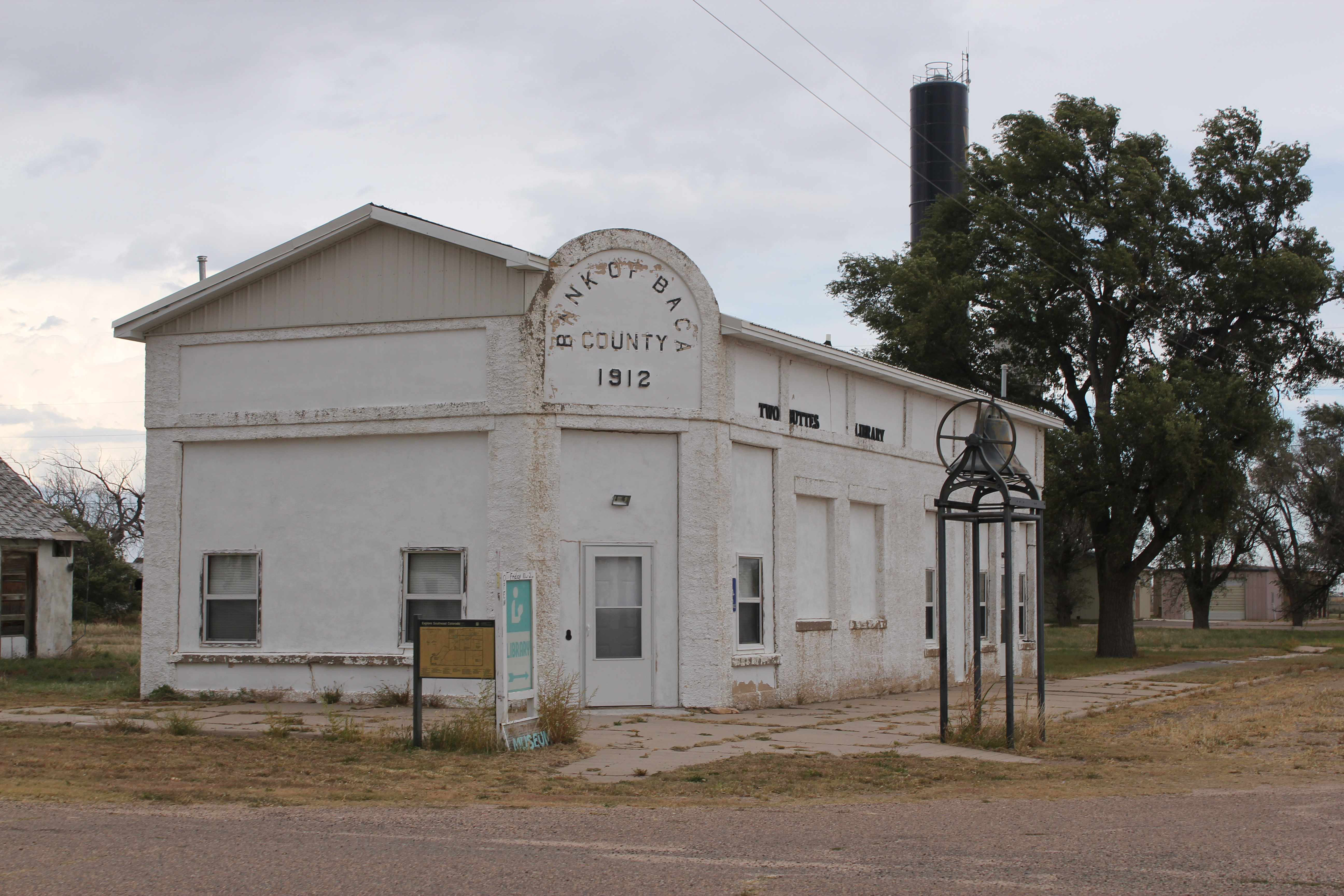 The Two Buttes Library, located in Two Buttes, Colorado. The library is housed in the old Bank of Baca County building, built in 1912.